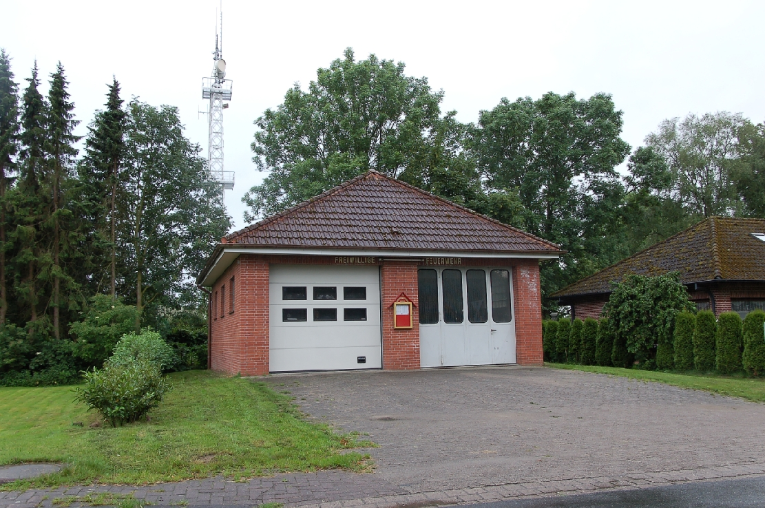 Pictures